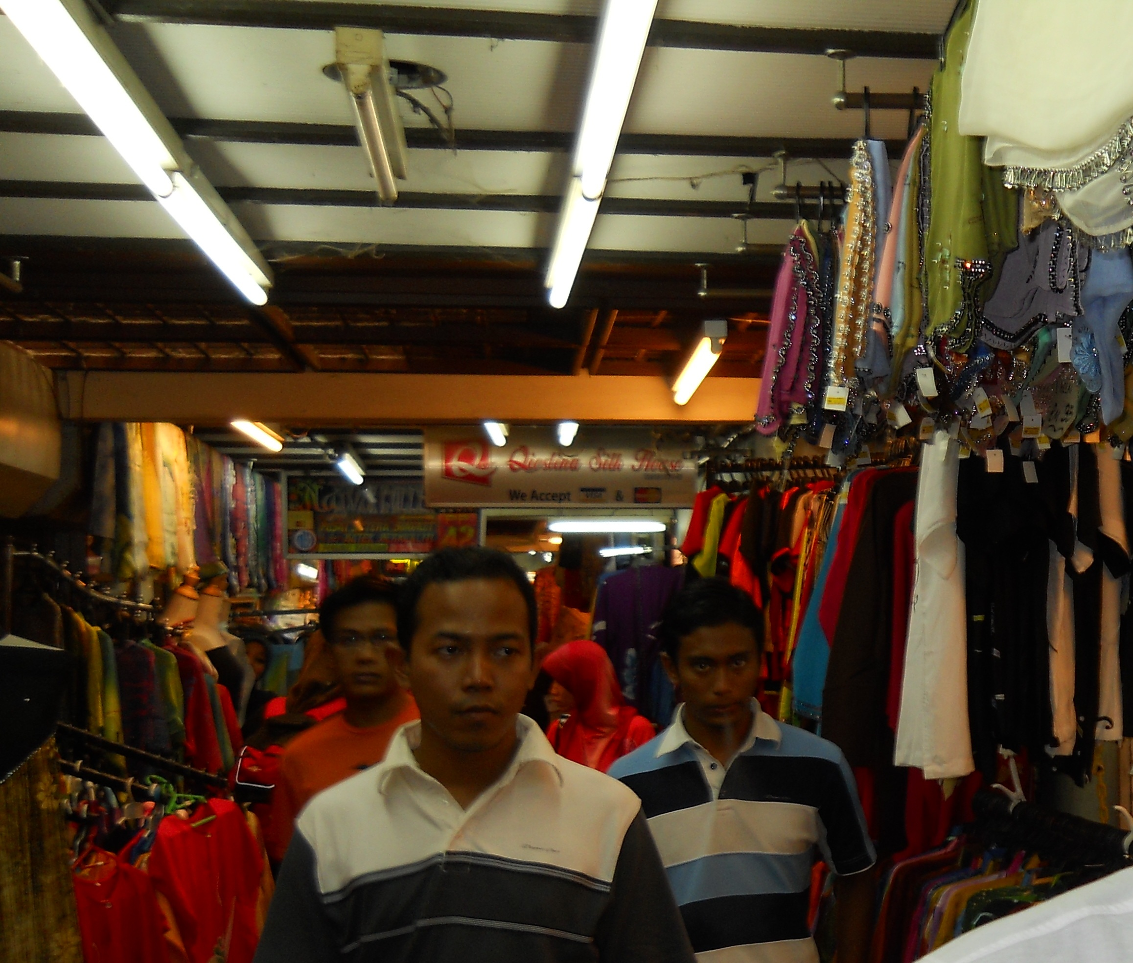 Colours of textiles surround the walkway of Pasar Besar Kedai Payang. A center of cultural shopping in Terengganu.